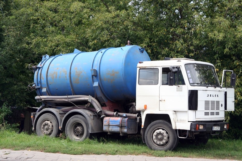 Jelcz 3-axle truck in Białystok, Poland.